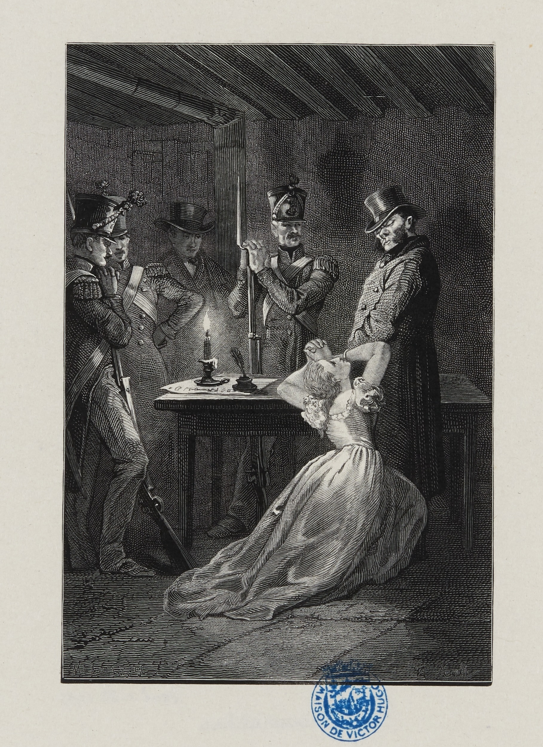 Fantine and Javert (Les Miserables, novel).